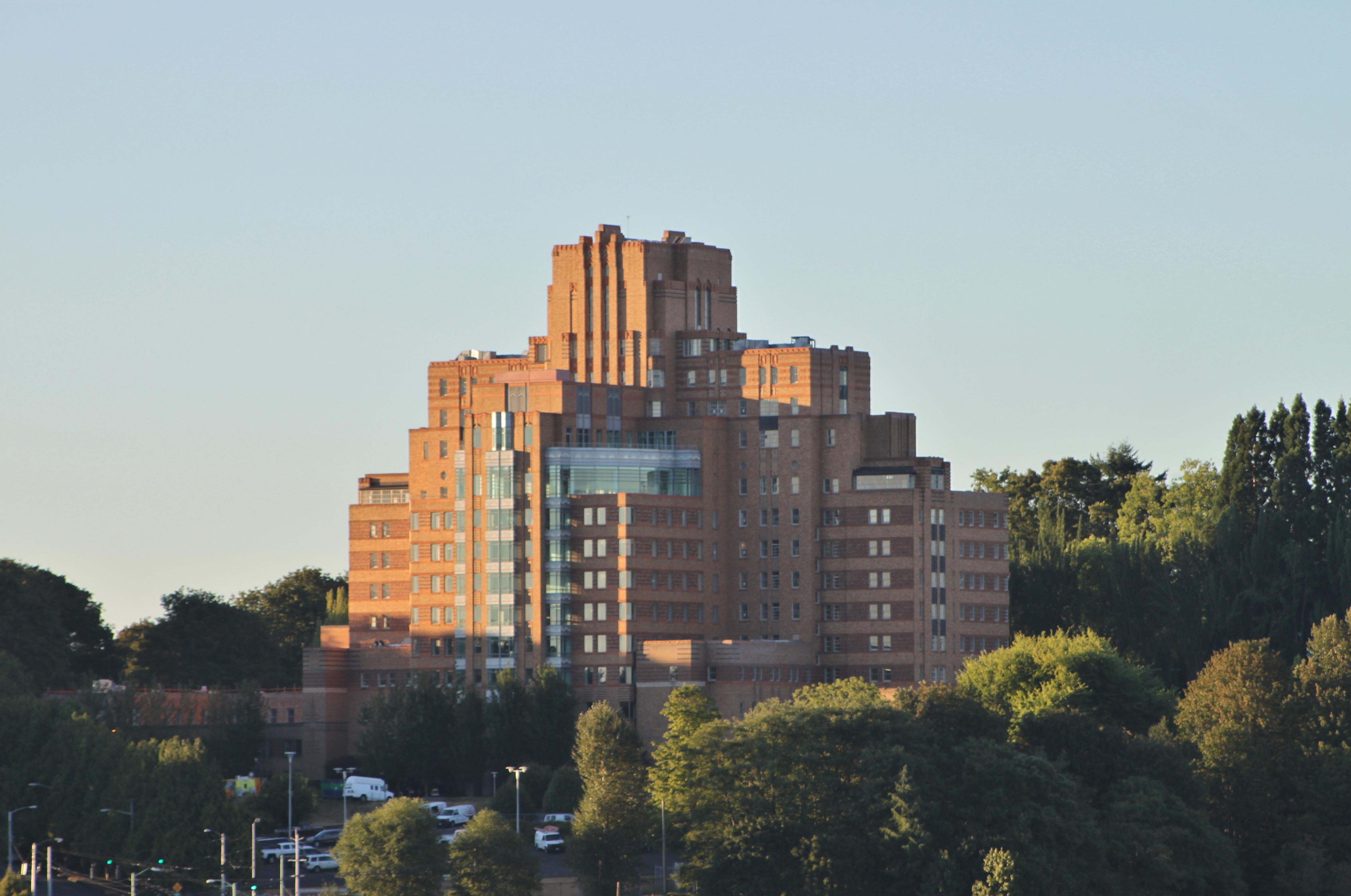 Pacific Medical Center from Yesler Way